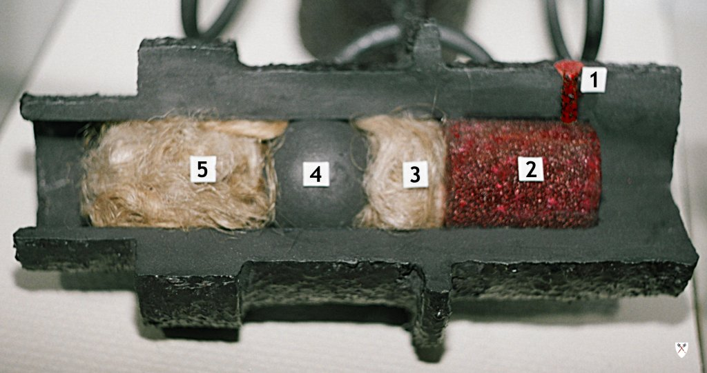 Model of a loaded muzzle loader blackpowder weapon. 1 touch hole with powder, 2 poder load, 3 wadding, 4 projectile, 5 final wadding.